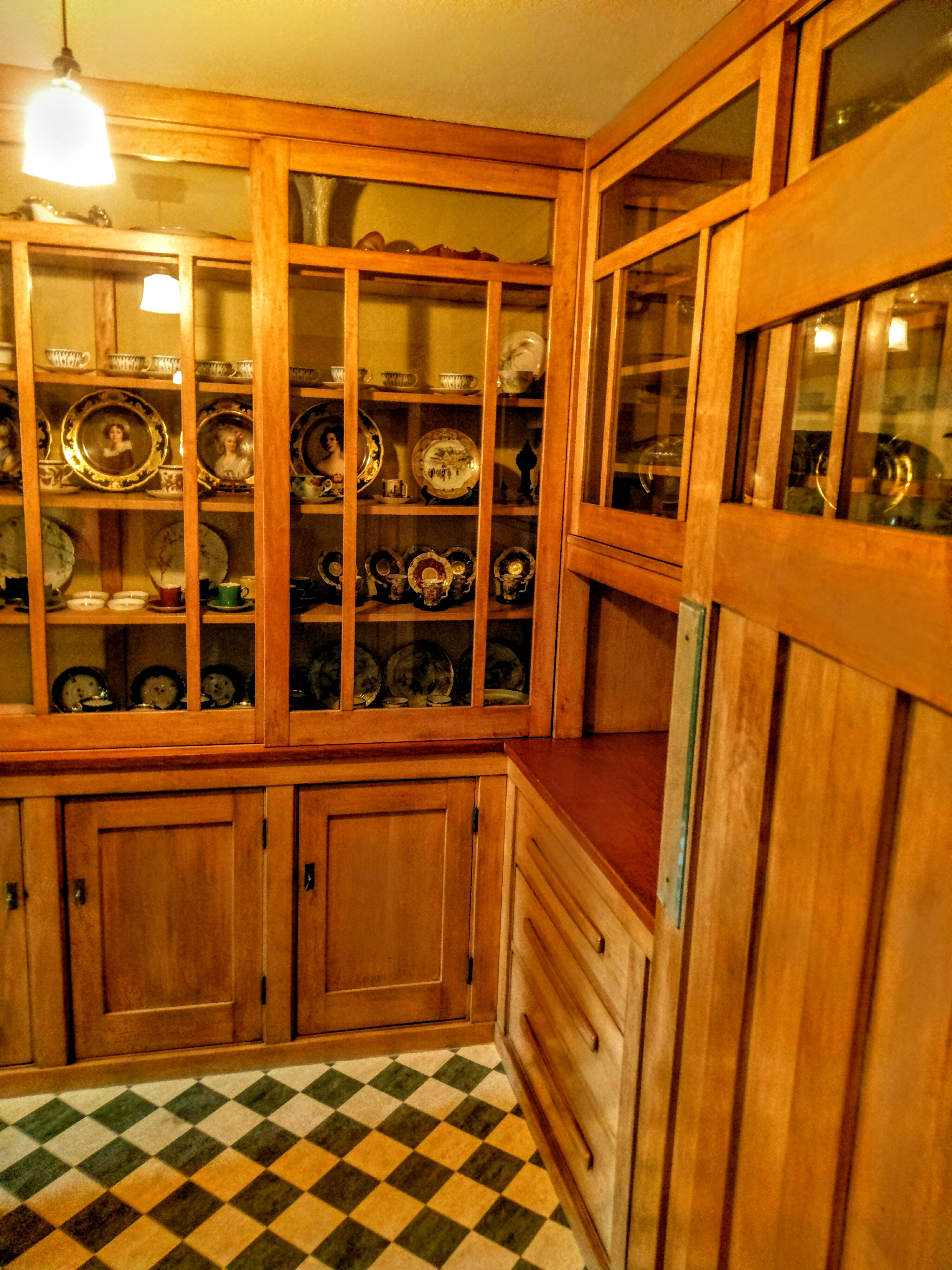 China storage cabinets at the Gamble House in Pasadena, California. Photo by Jim Heaphy.